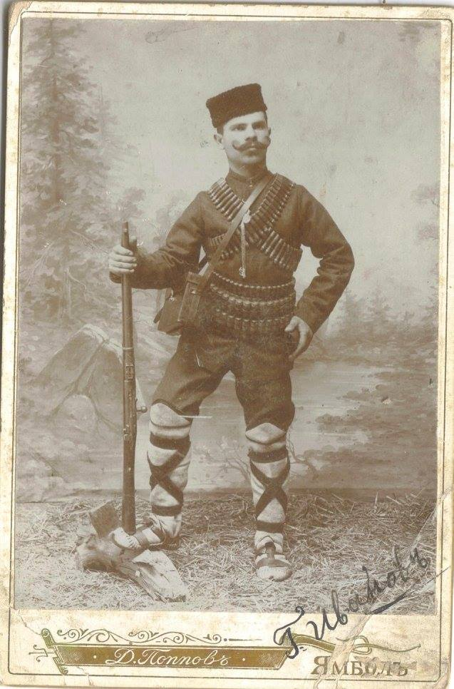 IMARO revolutionary Gavril Ivanov from Pehchevo.